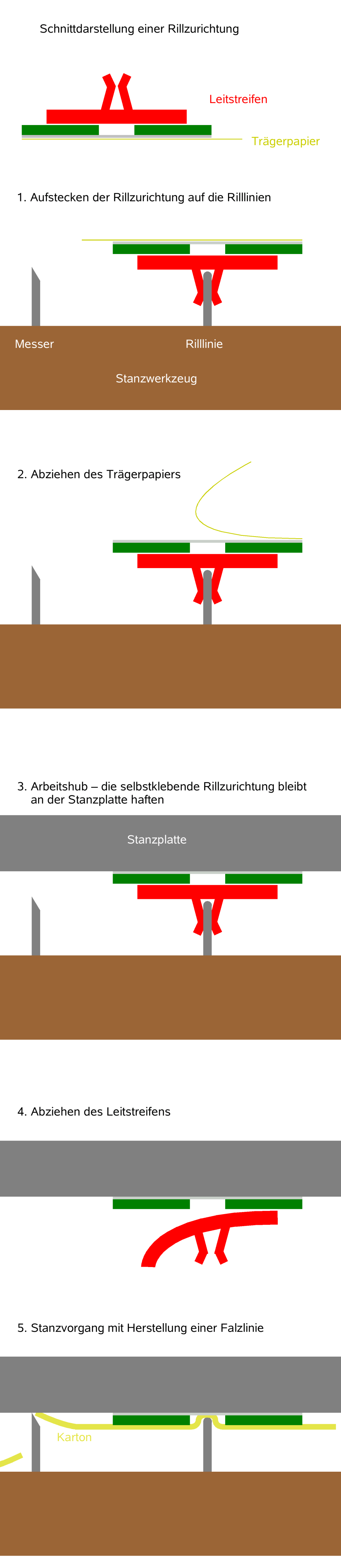 Cross section drawing of creasing matrix and instruction of use. Description in German. If you need a version in another language, please leave a message on my discussion page on German wikipedia